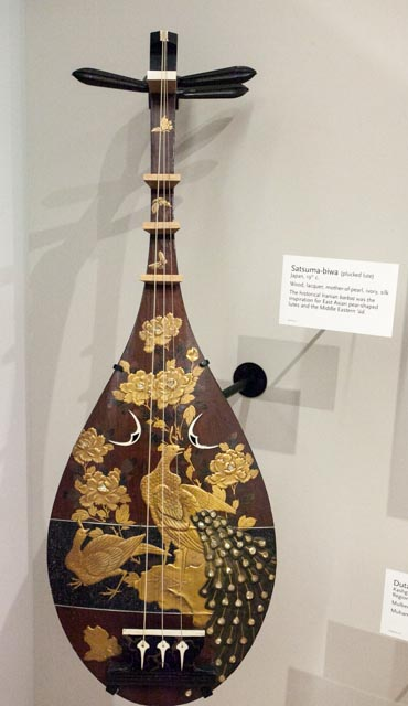 Satsuma-biwa (19th century), Japan - MIM PHX Satsuma-biwa (plucked lute) Japan, 19th C. ... ... ... ... ... We read about the Musical Instrument Museum (MIM) on Trip Advisor - it was the top rated attraction in Phoenix - and now we can see why! The museum is dedicated to musical instruments from around the world - the collection is fascinating, the exhibits are great and the hands-on displays were fun. We spent almost 5 hours here and still felt rushed - this place is definitely worth a detour. I know nothing about musical instruments so if you happen to know what a particular instrument is, please feel free to comment on it. I tried to include as many labels as possible. The museum is in Phoenix, AZ - we visited it in March 2014.